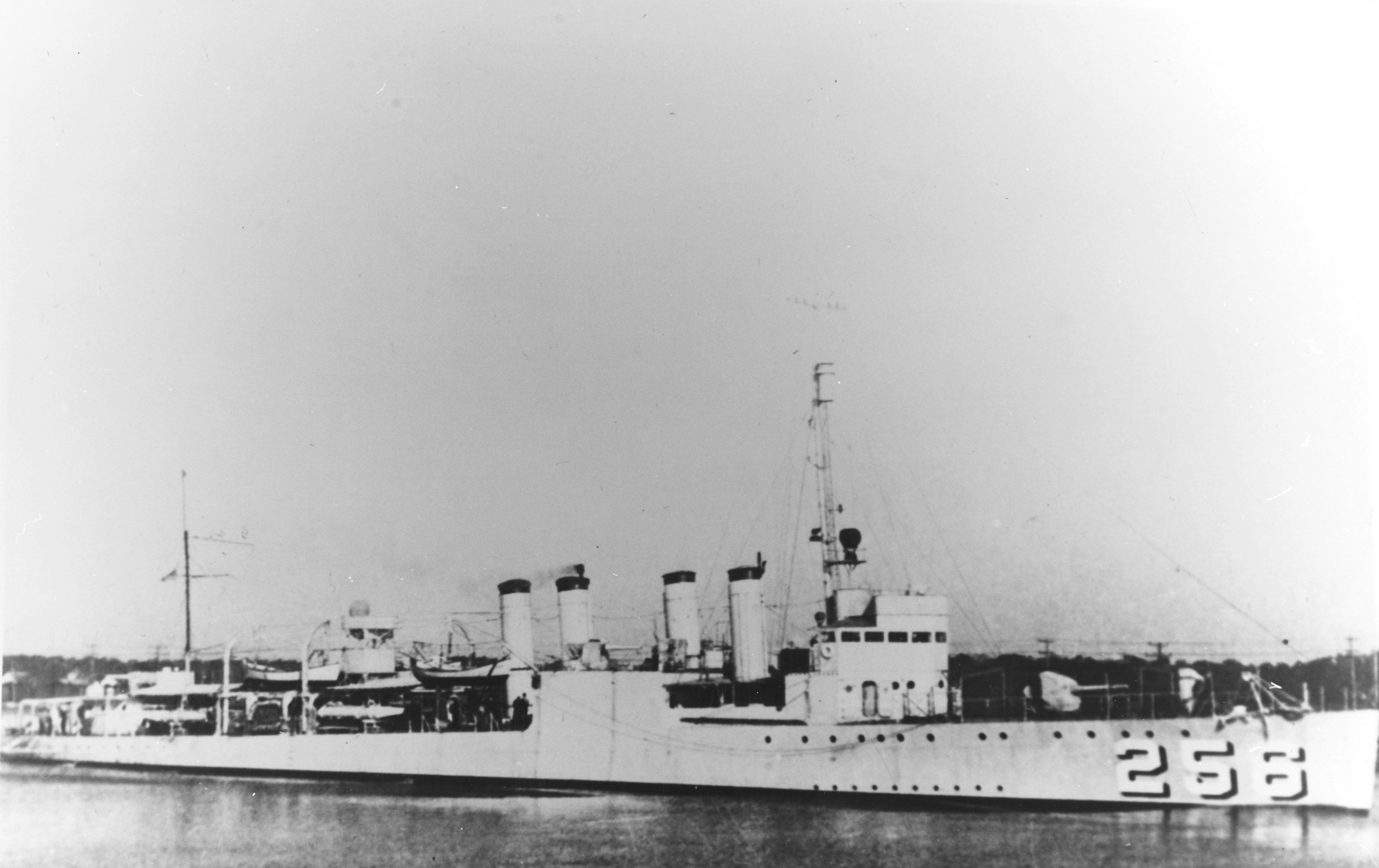 The U.S. Navy destroyer USS Bancroft (DD-256) underway, circa in 1940